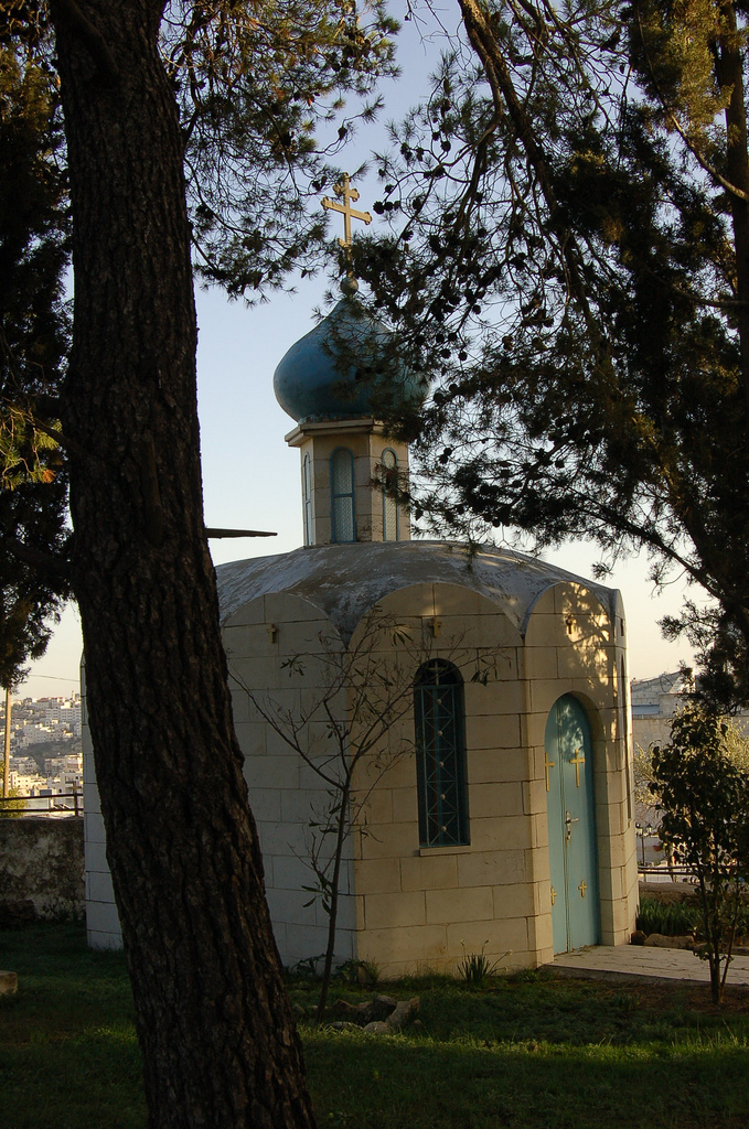 Abraham's Oak Holy Trinity Monastery (Russian: Троицкий монастырь и храм св. Праотцев в Хевроне) is a Russian Orthodox monastery in Hebron founded in XIX century at the site of the ancient Oak of Mamre.